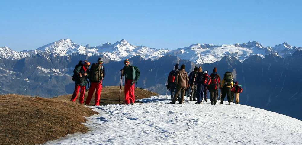 It is always enchanting to capture the awe-struck trekkers in the beautiful background of such ranges (Dhauladhar ranges here). Beauty here is worth ones' life time. Taken on way to Sar Pass in Kullu District of Himachal Pradesh, India from Tila Lotani Camp (12,500 ft.) at 7 a.m. on 10/5/07.